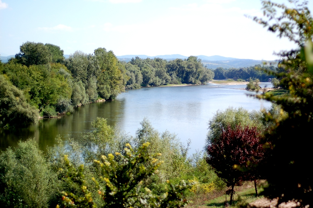 Velika Morava near Varvarin